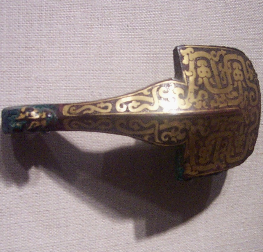 A Chinese Eastern Han Dynasty bronze shield-shaped belt hook, inlaid with silver and gold, dated 25 to 220 AD.